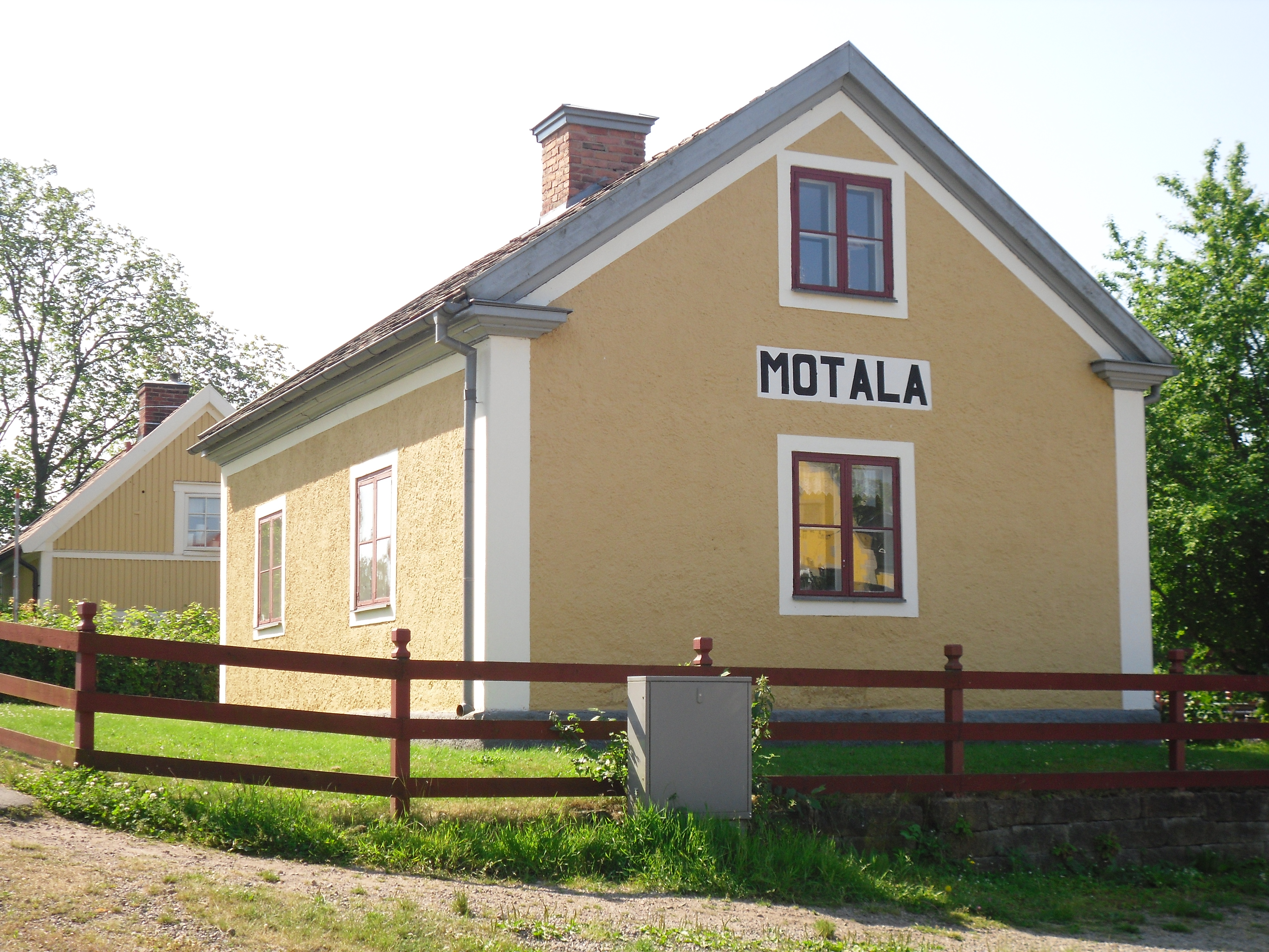 Motala Harbour, Sweden